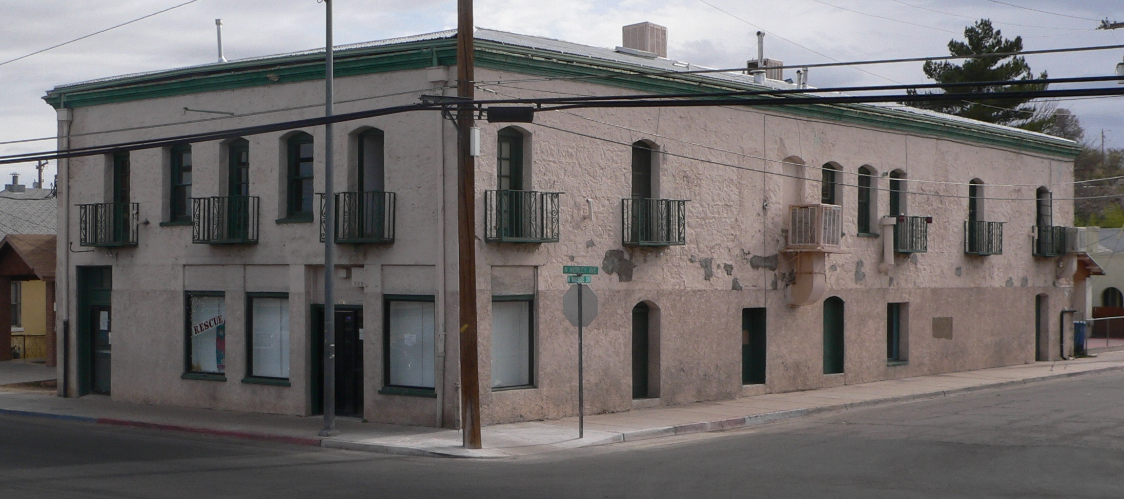 Hotel Blanca, located at 456 Morley Avenue (southeast corner of Morley and Wayside Drive) in Nogales, Arizona.